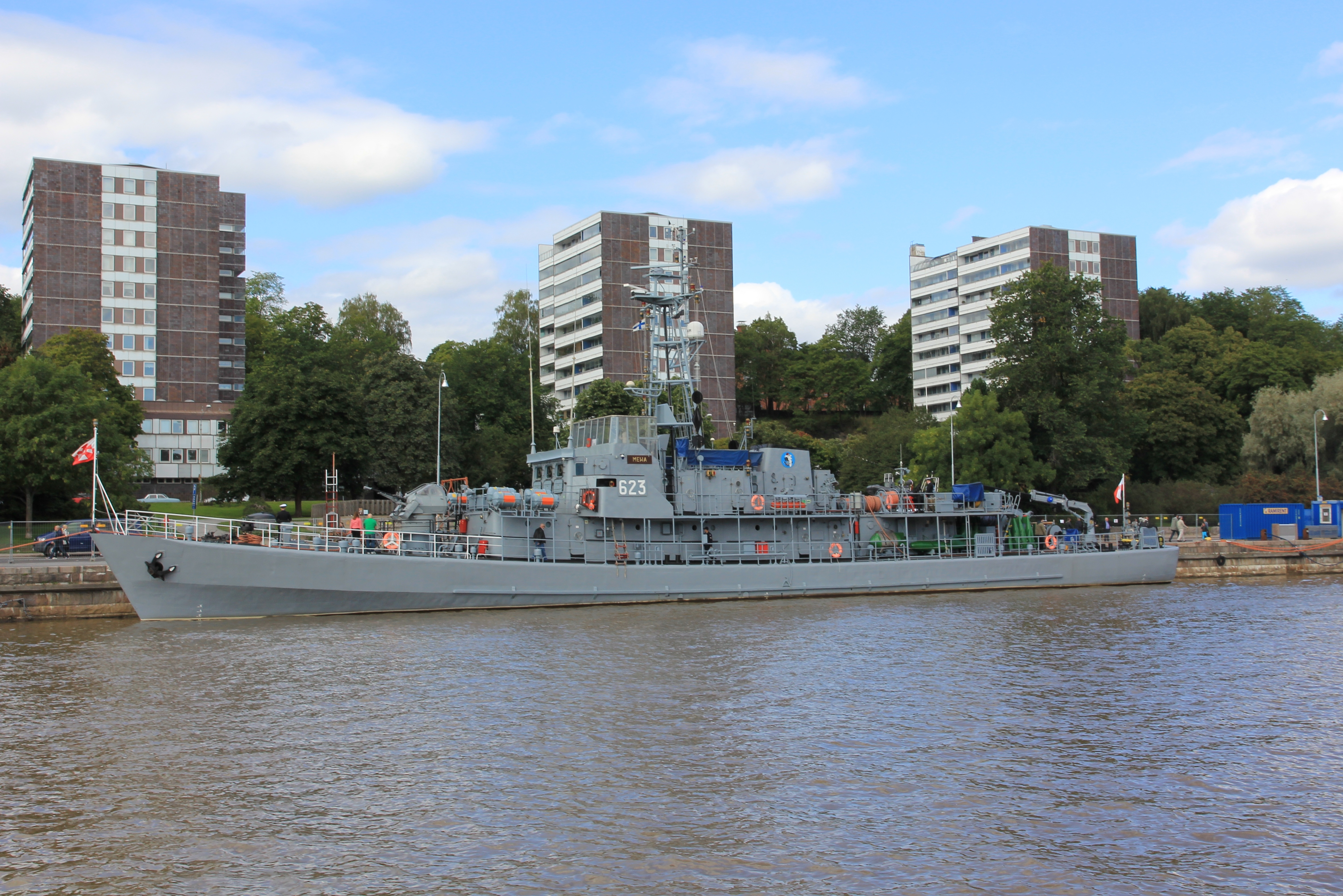 Polish project 206FM class minehunter Mewa (623) in Aura river in Turku during the Northern Coasts 2014 exercise public pre sail event.